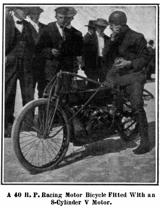 Glenn Curtiss's V-8 motorcycle at its record setting run at Ormond Beach, Florida, January 21, 1907. From February 9, 1907 Scientific American magazine.